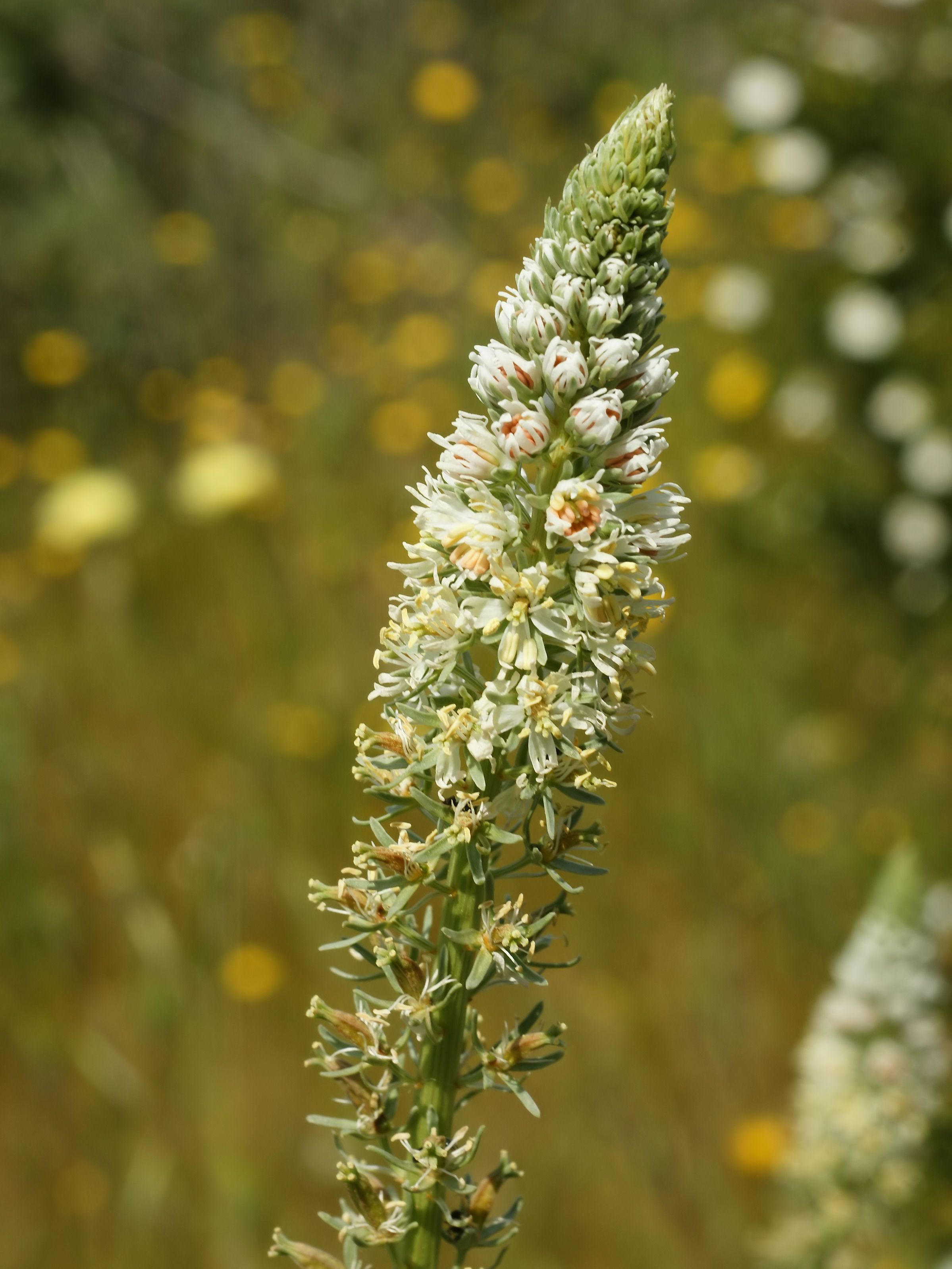 White upright mignonette. Close to Is Carillus, Sardinia, Italy